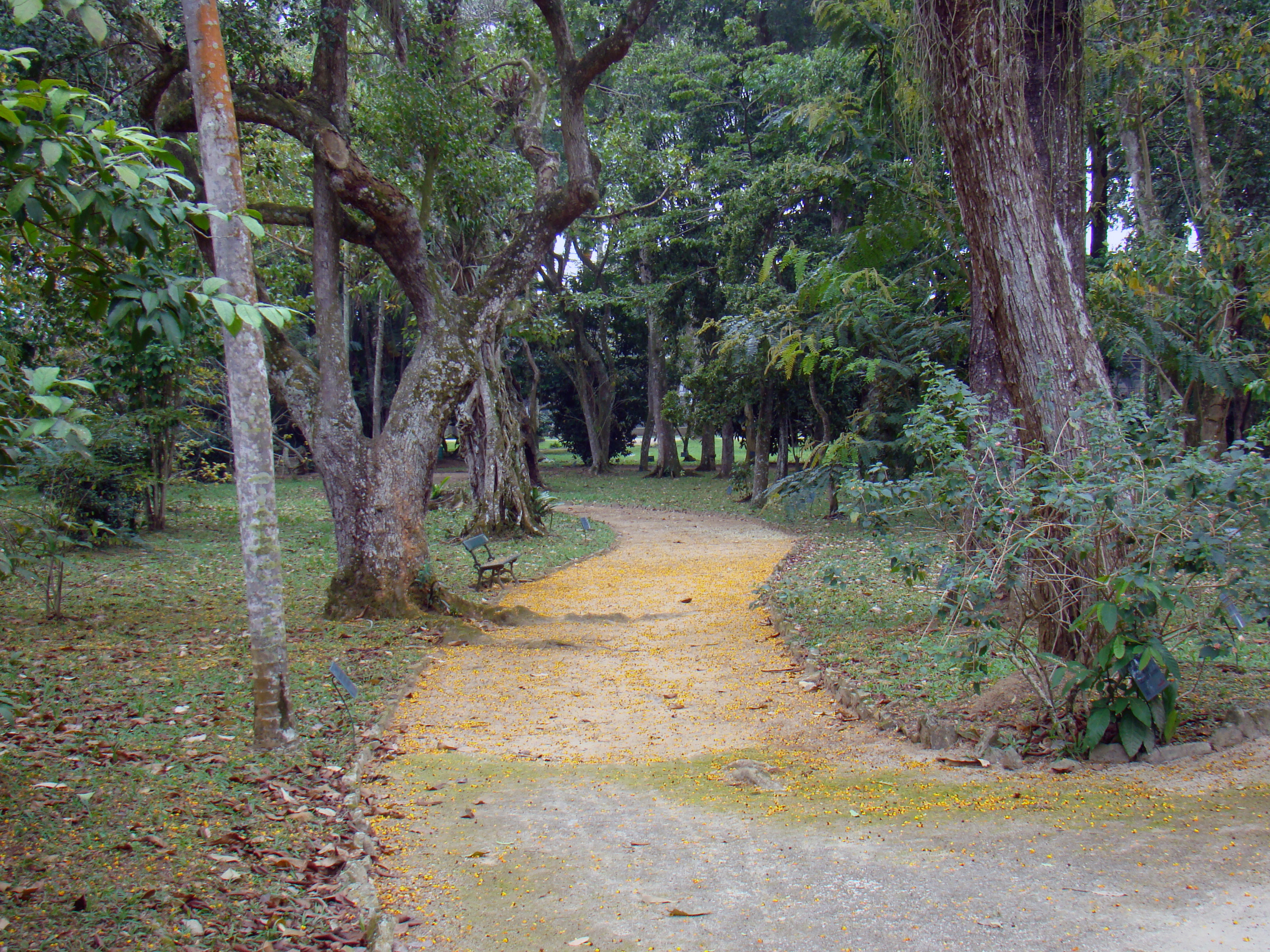 Garden path and park bench, at the Jardim Botânico do Rio de Janeiro